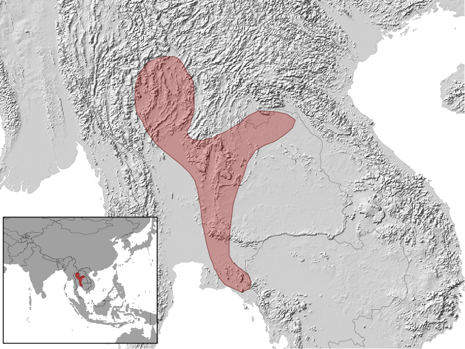 geographic distribution of Lygosoma haroldyoungi